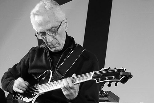 Pat Martino at Tversted Jazzy Days in Denmark 2015